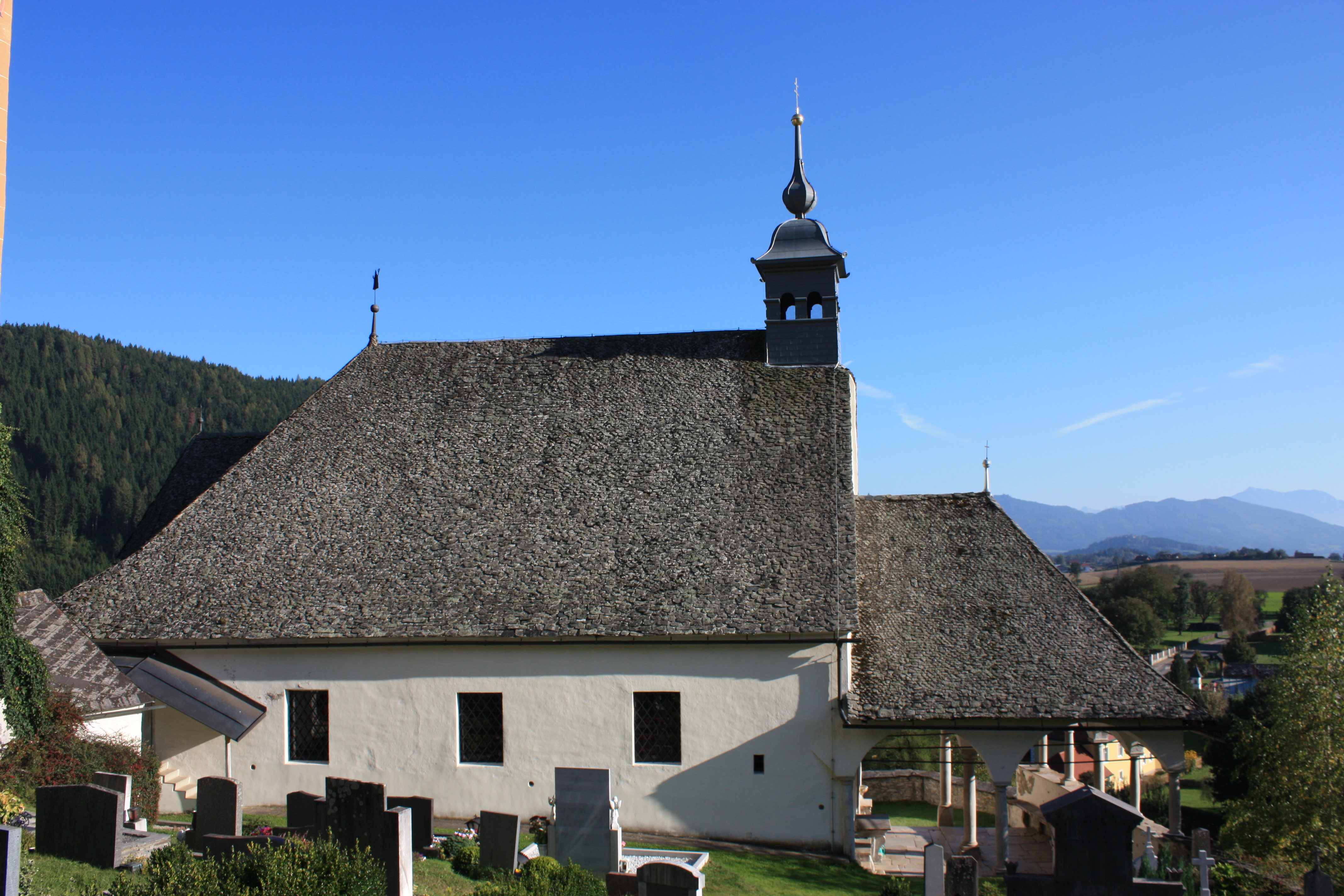 Parish church - Saint John Baptist - Main church Locality: Kraig Community:Frauenstein